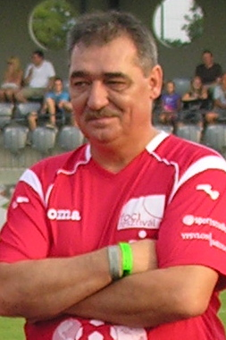 József Varga (born in 1954) Hungarian international football player in Telki (Hungary) - Football Festival by MLSZ